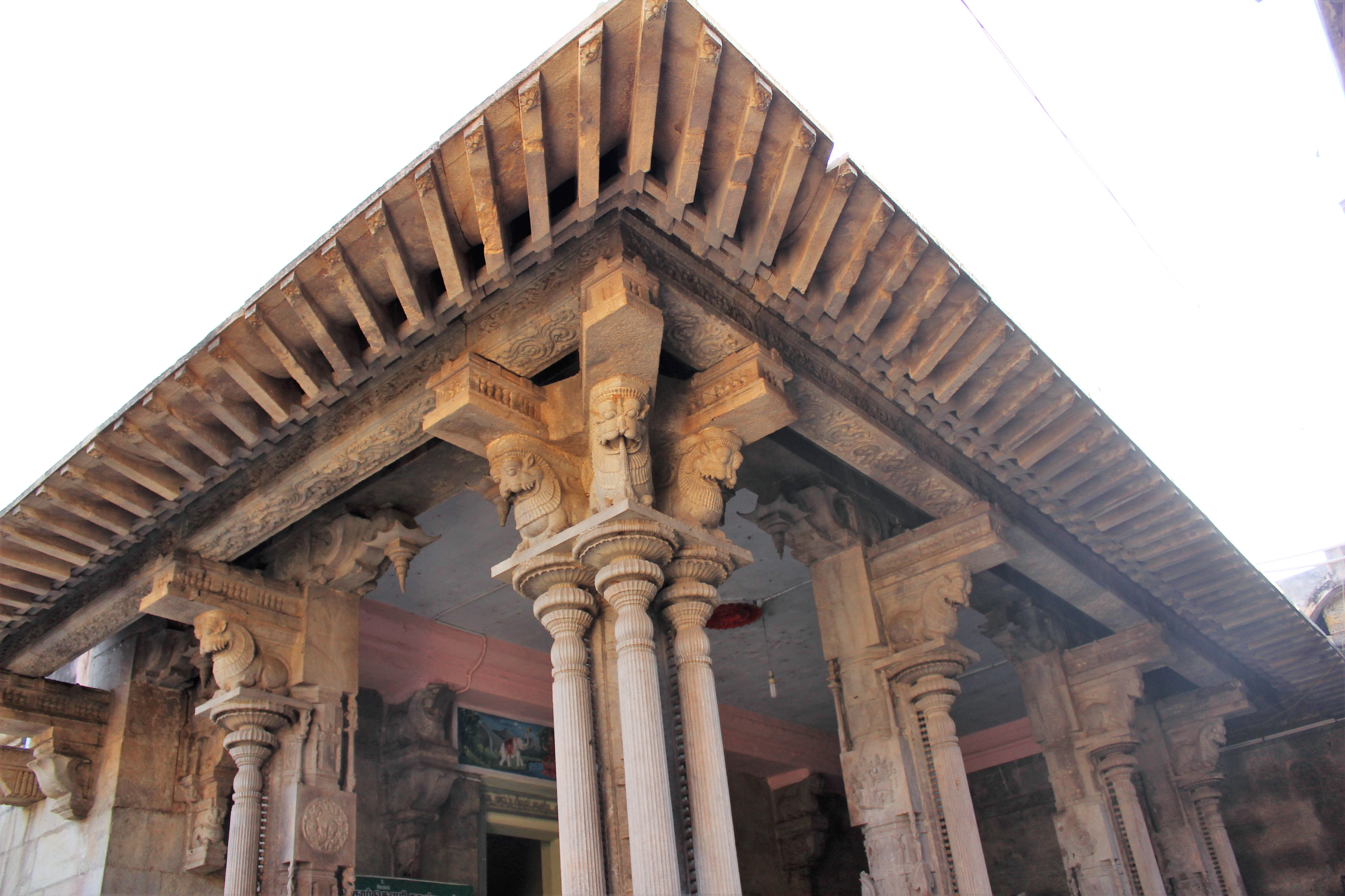 Neyyadiyappar temple, Thirupathur